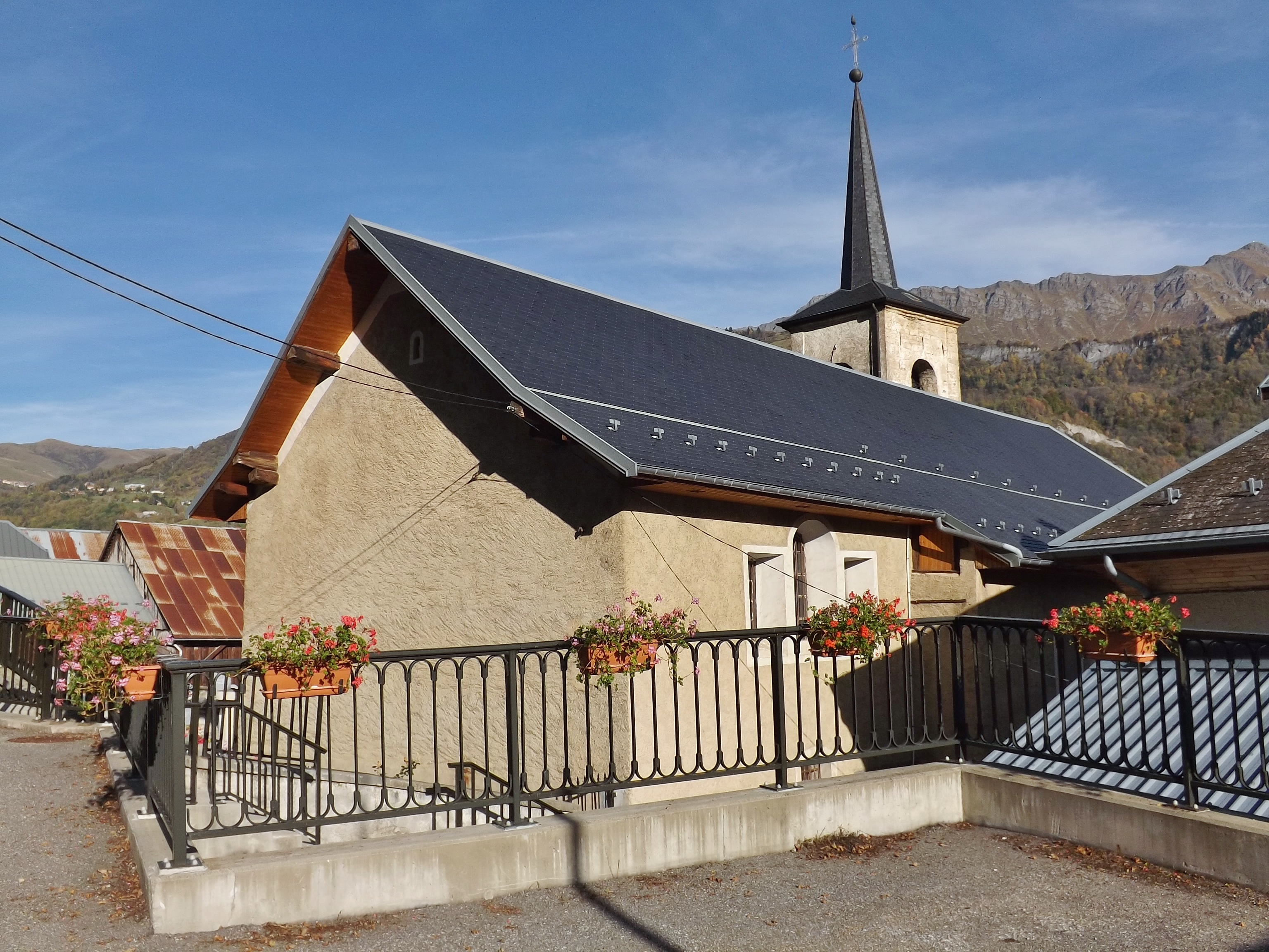 Sight of the église Saint-Théodule church of Montgellafrey, in the Lauzière mountains of Savoie, France.